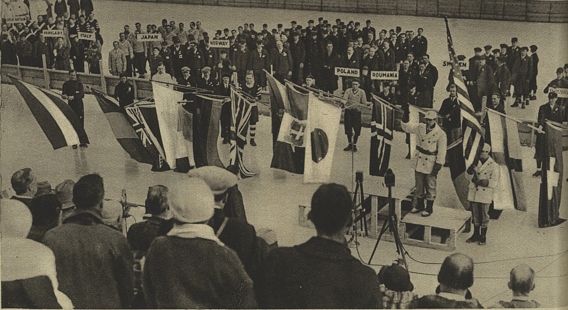 Closing ceremony of the 1932 Winter Olympics in Lake Placid